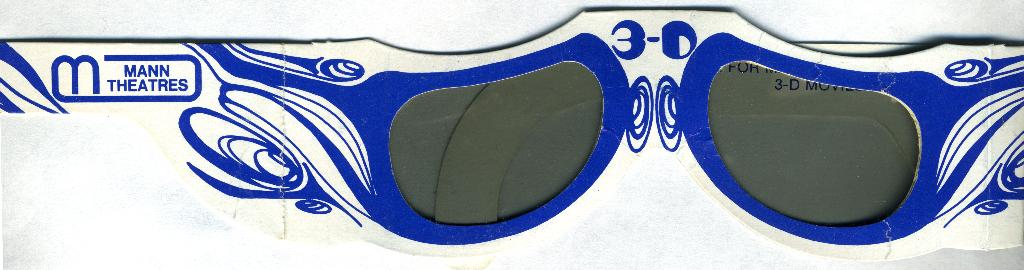 Paper 3D glasses from 80s